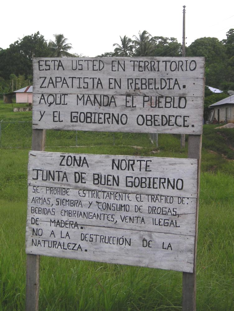 This sign reads, in